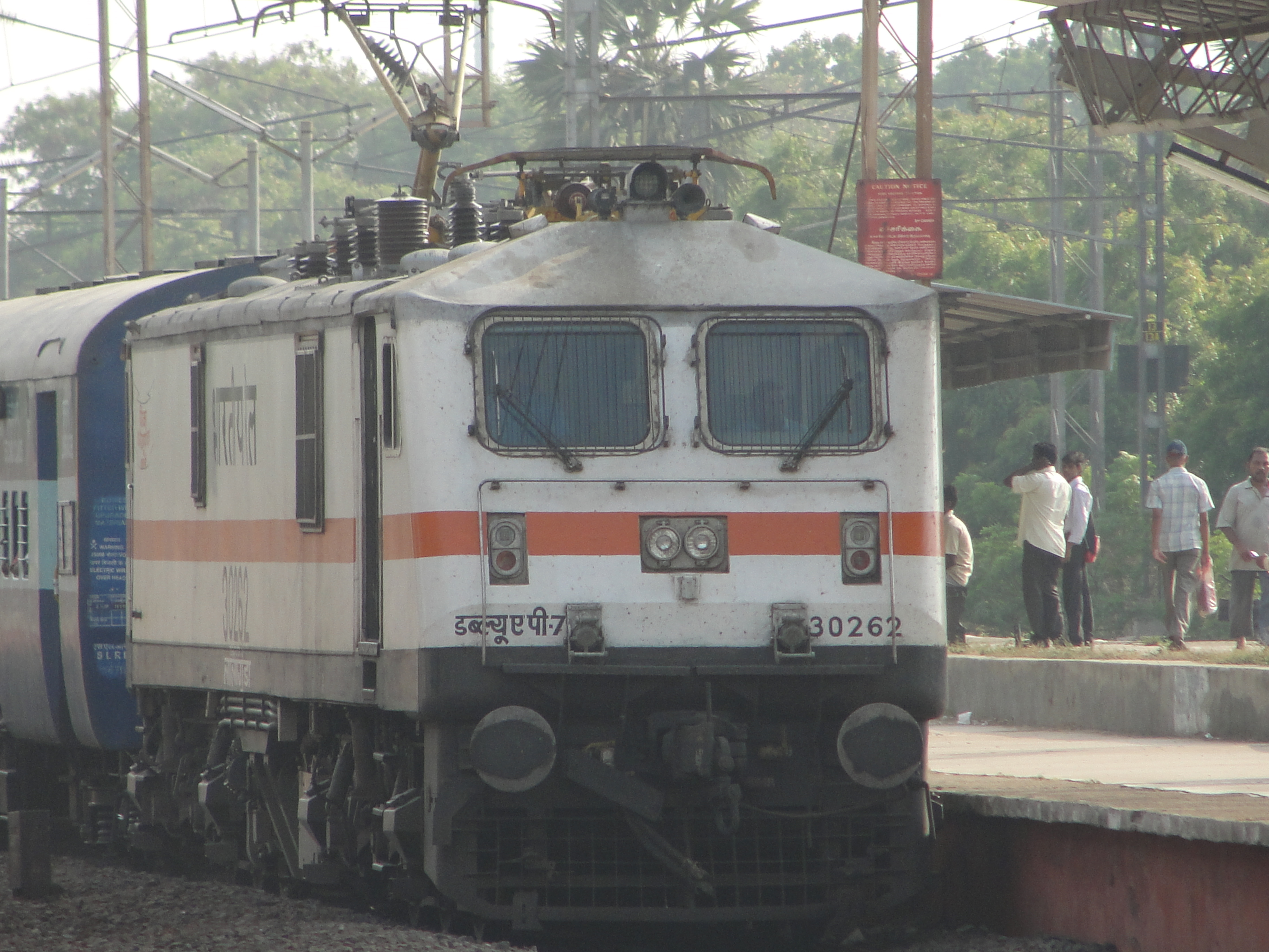 Indian Railways Locomotive WAP-7